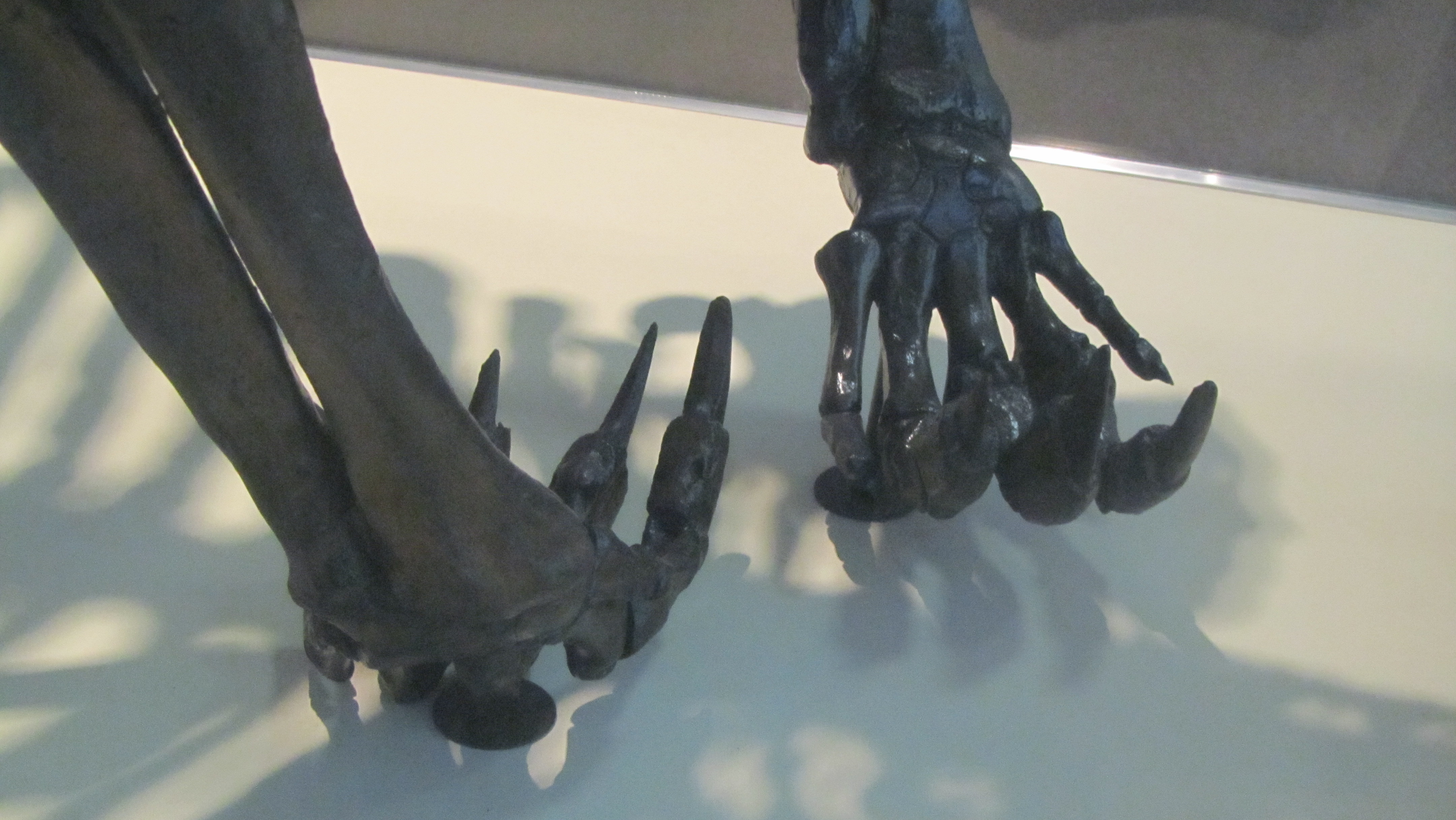 Ground sloth claws